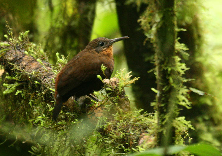 Dusky Leaftosser (Sclerurus obscurior) Tandayapa Bird Lodge, NW Ecuador 3/11/2007